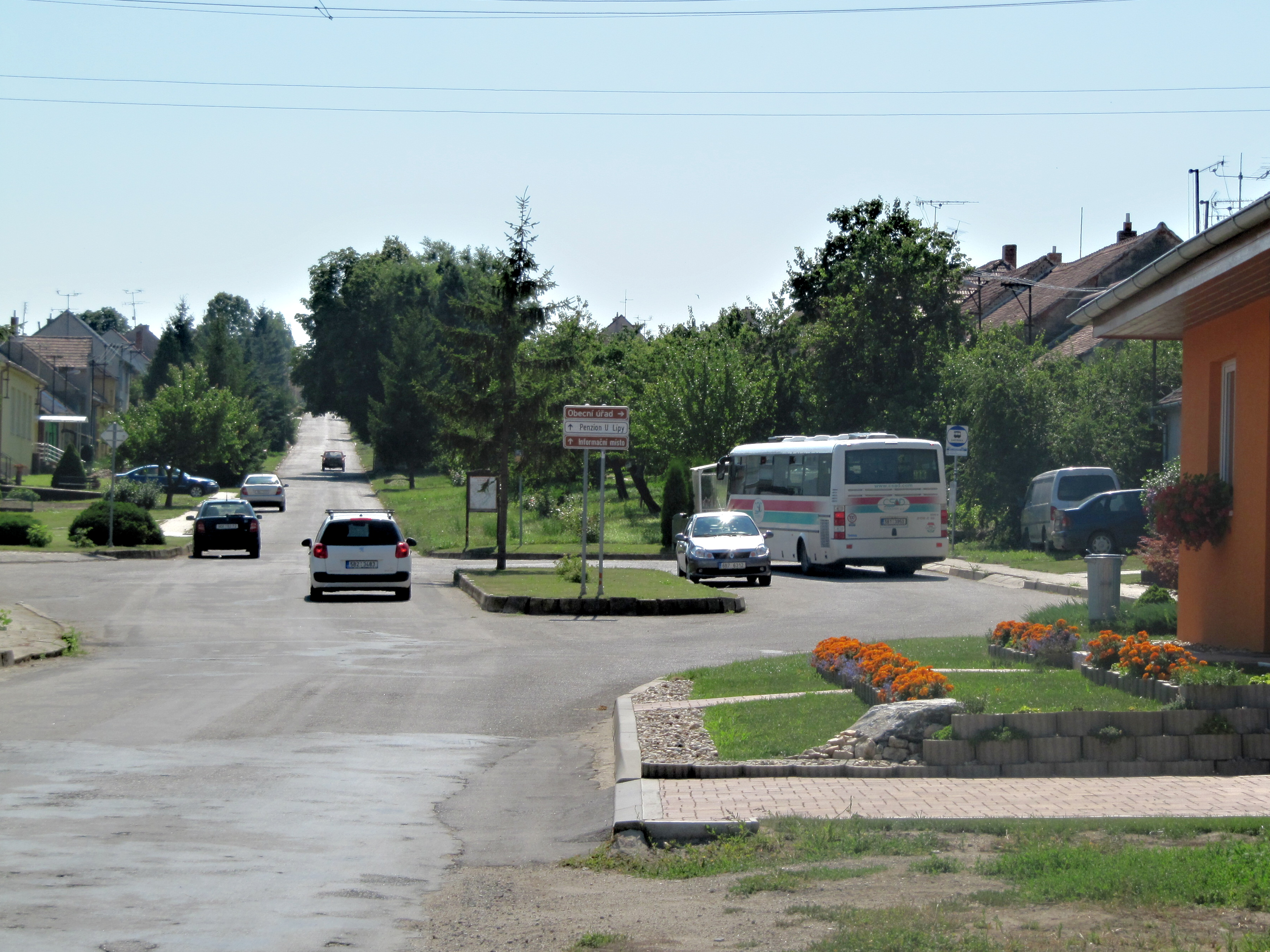 Nový Poddvorov in Hodonín District, Czech Republic. Bus stop in the front of municipal office.